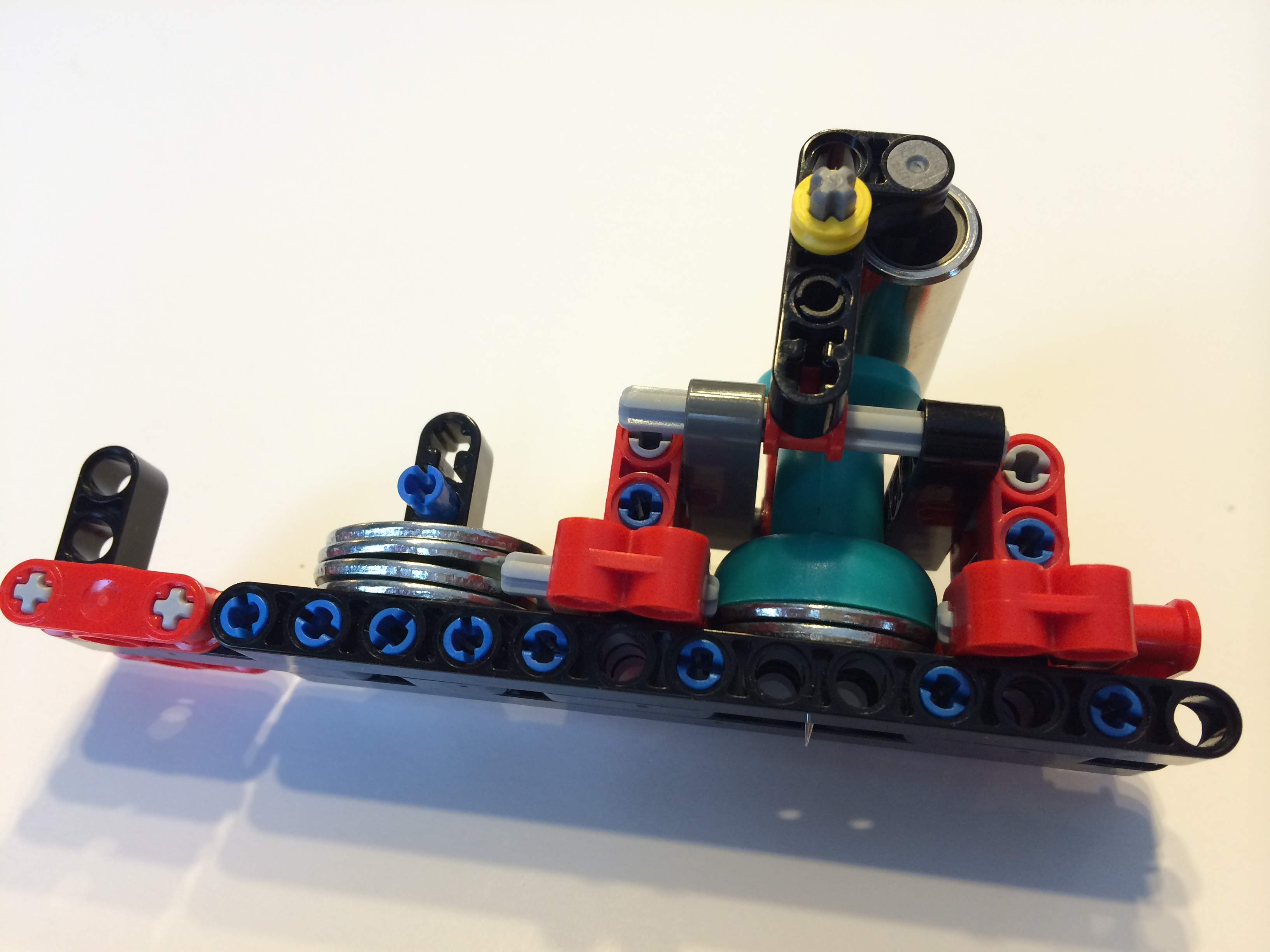 This is a picture of the Braigo Braille Print Head